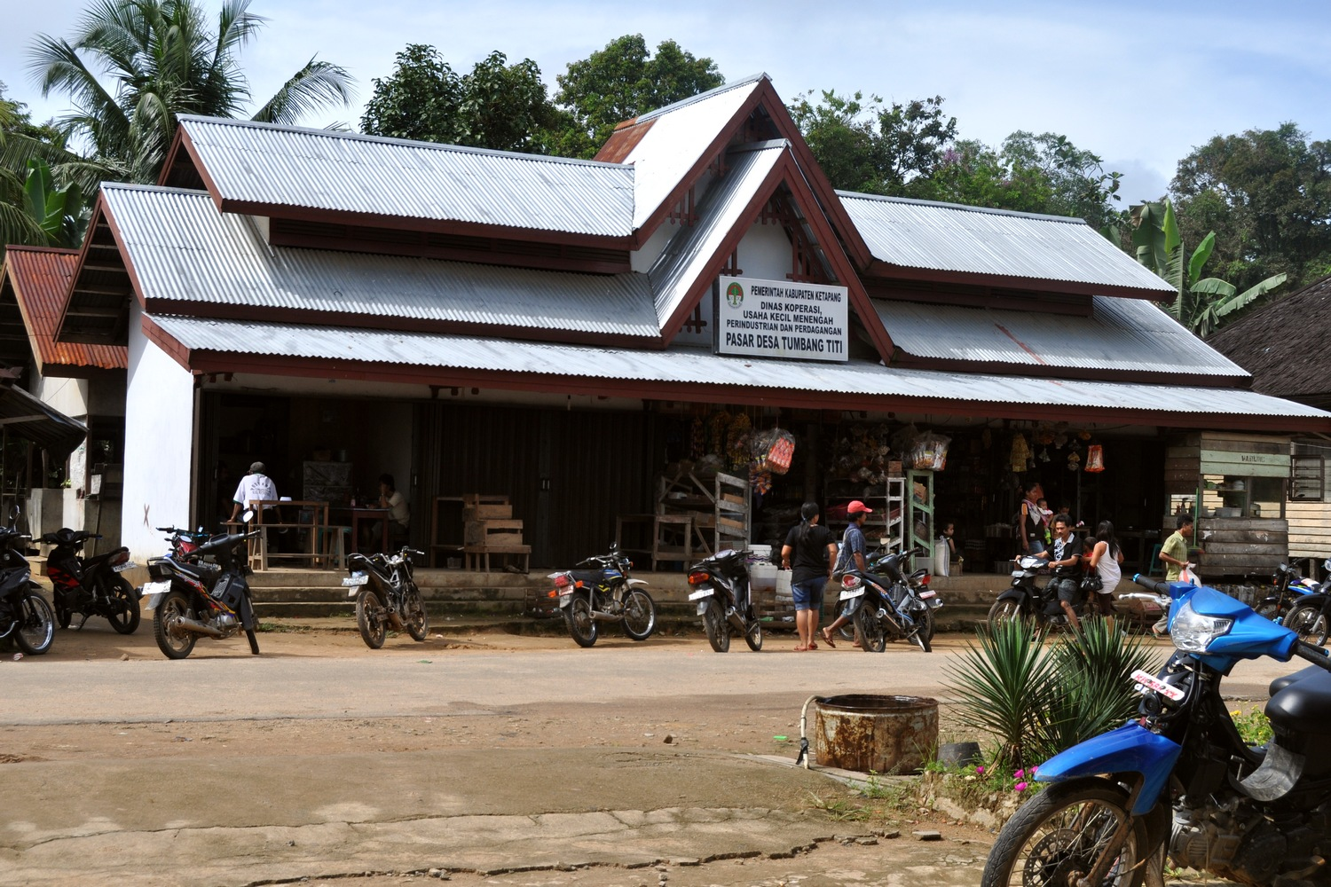 Local market in Tumbang Titi, West Kalimantan, Indonesia